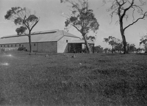 [General description] This large stone building with its wooden stockyards, windmill and trough is seen looking across an open expanse of pasture. A few straggly gum trees stand nearby. [On back of photograph] 'Coola wool shed (near Mt. Gambier)'.